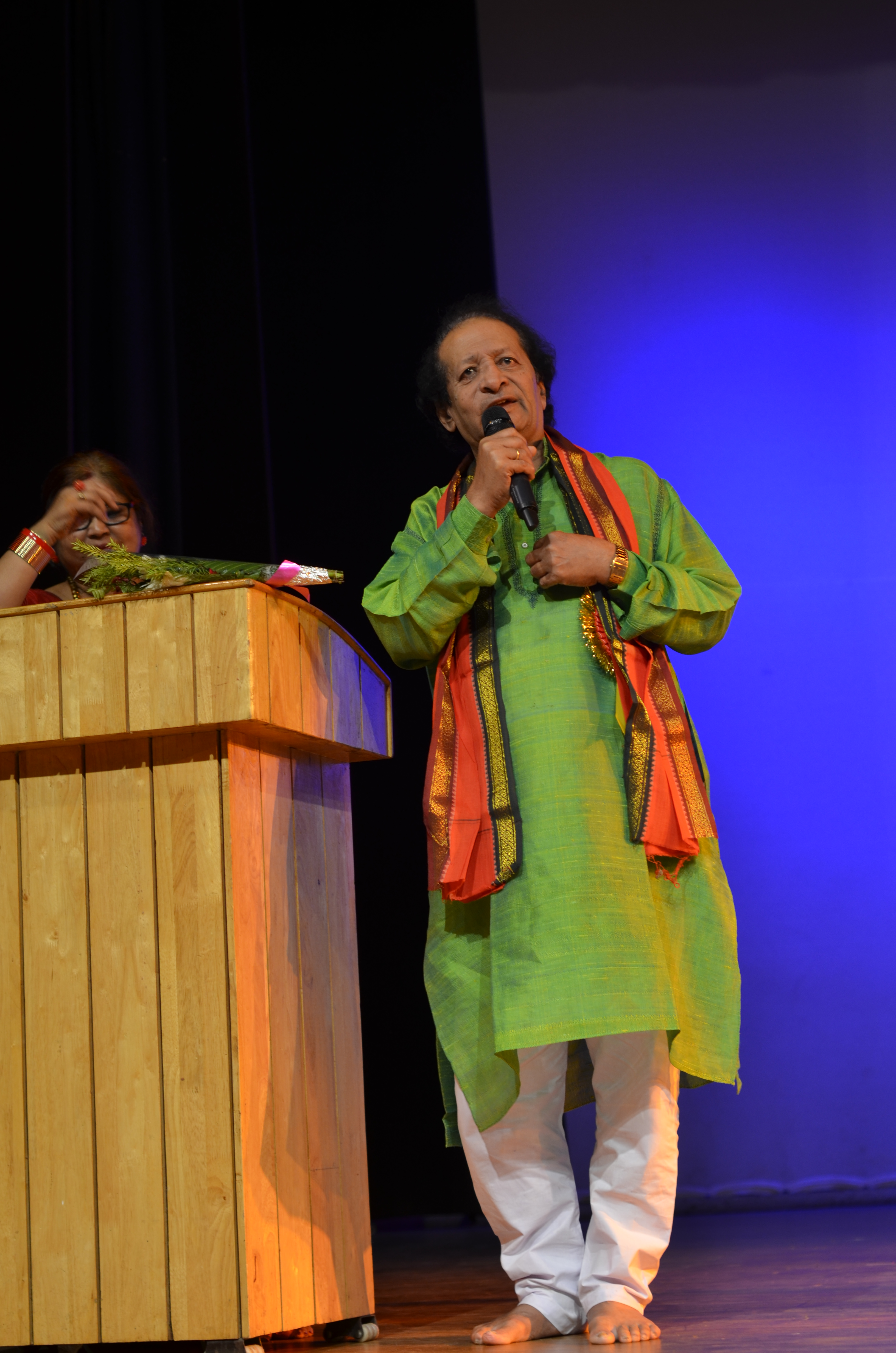 Prafulla Kar is an Indian singer from Odisha, India. Photographed during an Odissi dance event at Rabindra Bhaban, Bhubaneswar,ଓଡ଼ିଆ: ପ୍ରଫୁଲ୍ଲ କର ଜଣେ ଓଡ଼ିଆ କଣ୍ଠସଙ୍ଗୀତ ଶିଳ୍ପୀ ।